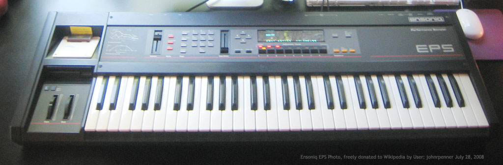 Photograph of Ensoniq EPS Sampling Synthesizer